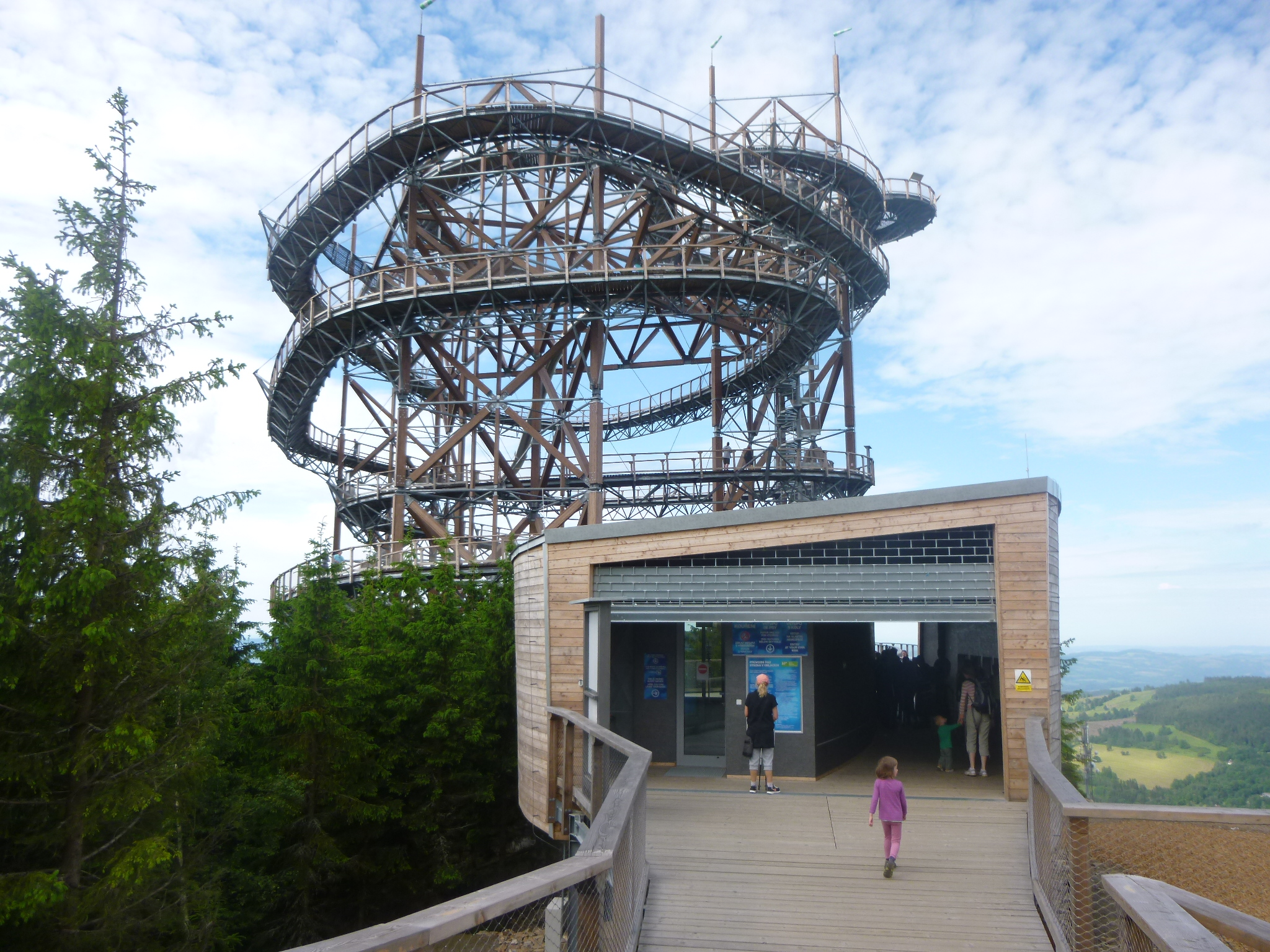 Observation tower Stezka v oblacich, village Dolni Morava, Pardubice Region